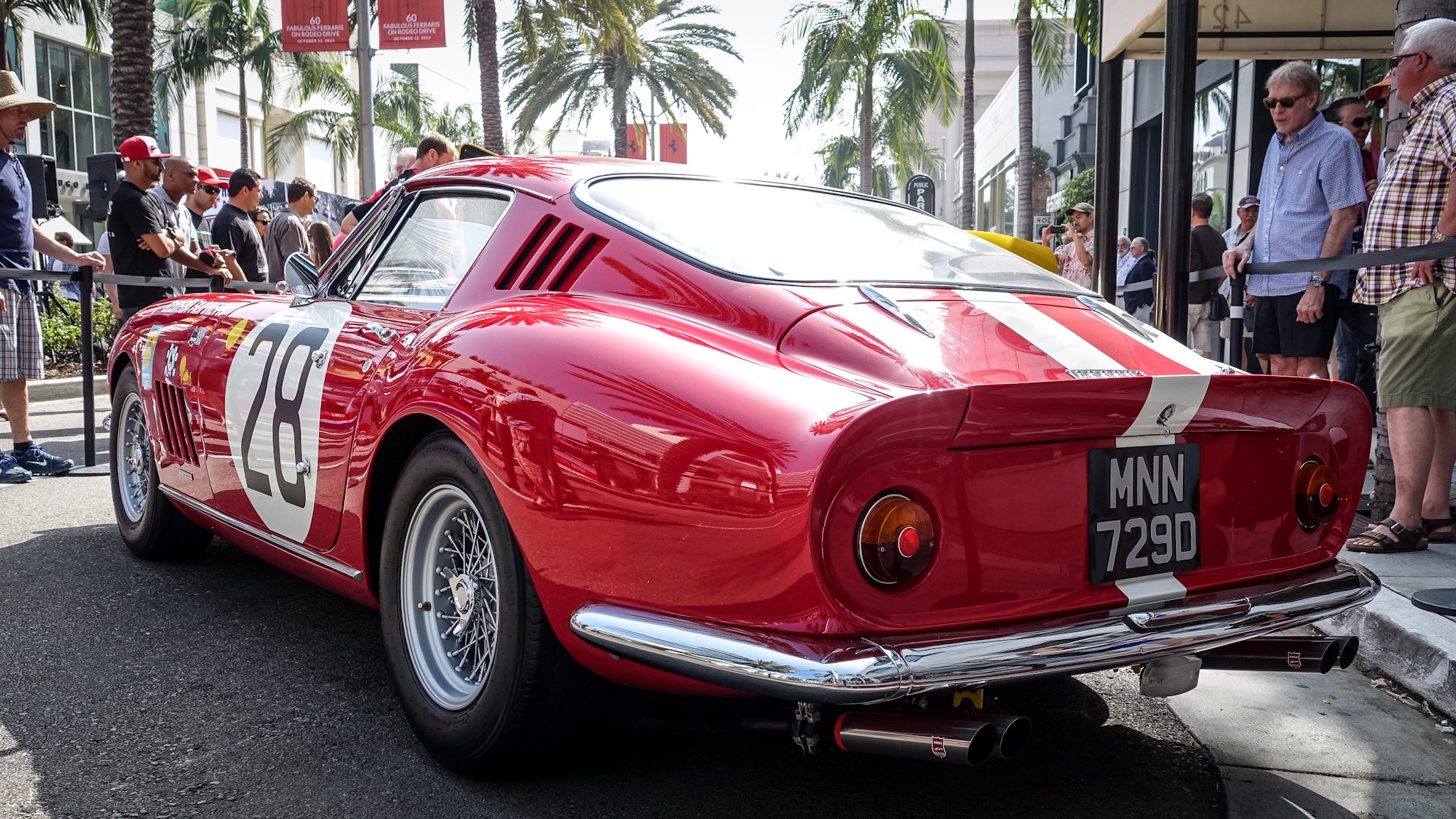 GT Class Winner and 11th Overall 1967 24 Hours of LeMans. Ferrari built 12 special 275 GTBs in 1966, designated the 275 GTB/C and meant for serious competition use. This particular GTB/C was sold to Georges Filipinetti, the Swiss founder of Scuderia Filipinetti. He entered the car at the 1967 24 Hours of LeMans for Dieter Spoerry and Rico Steinemann. The pair won the GT class and finished 11th overall. The car failed to finish at LeMans in 1968 and 1969, but then won its class at the 1969 1000 KMs de Francorchamp.